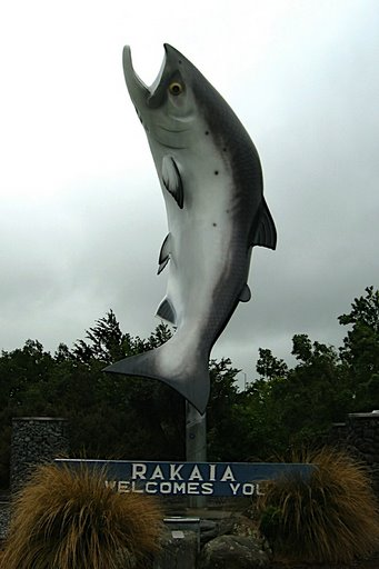 The Big Salmon in Rakaia, South Island, New Zealand.